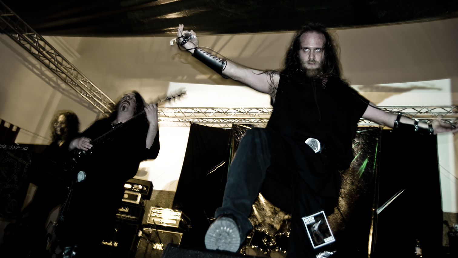 Opera IX - Ossia and M the bard